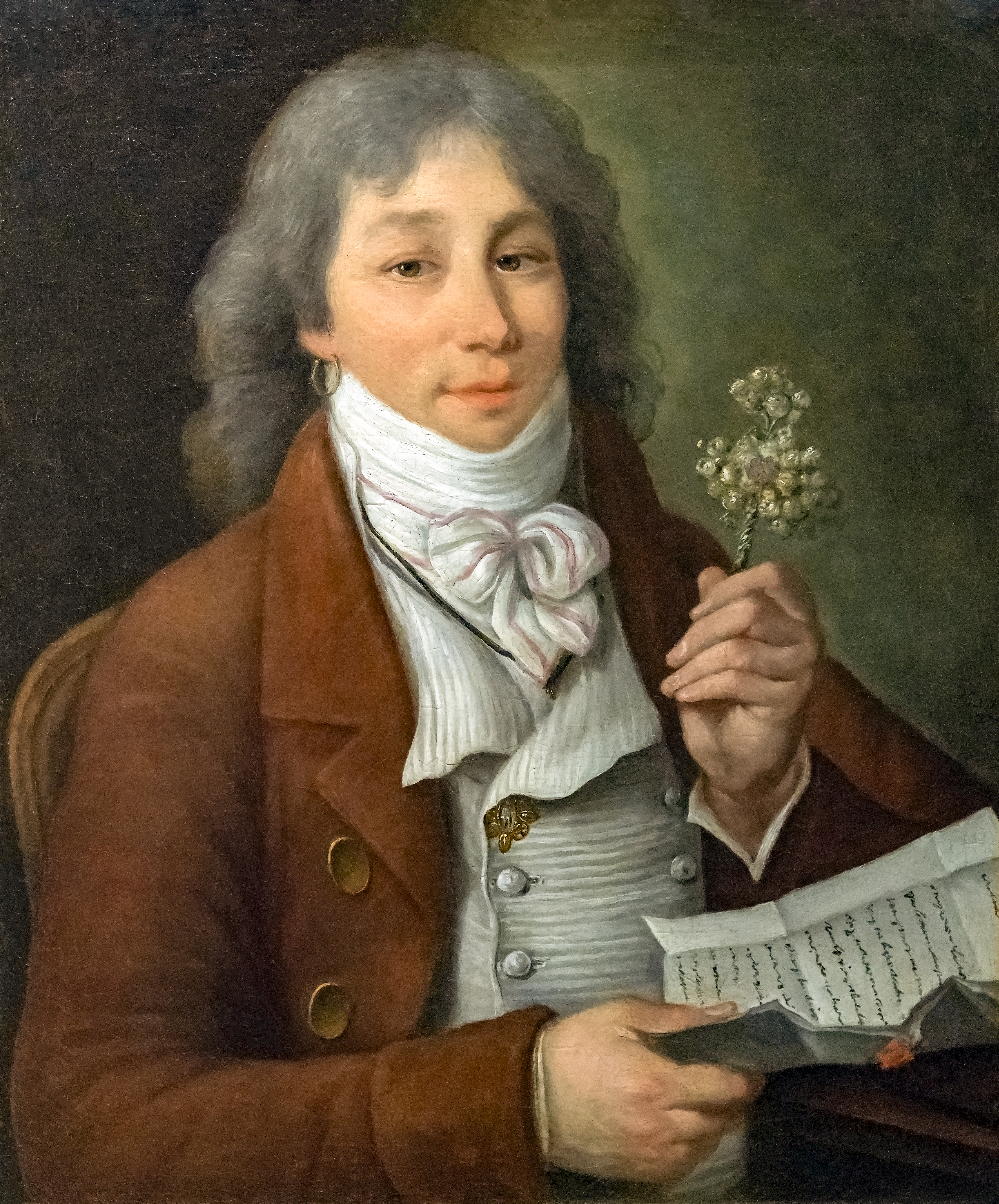 He holds in his left hand a silvery branch of wild rose, obtained at the Academy of floral games of Toulouse